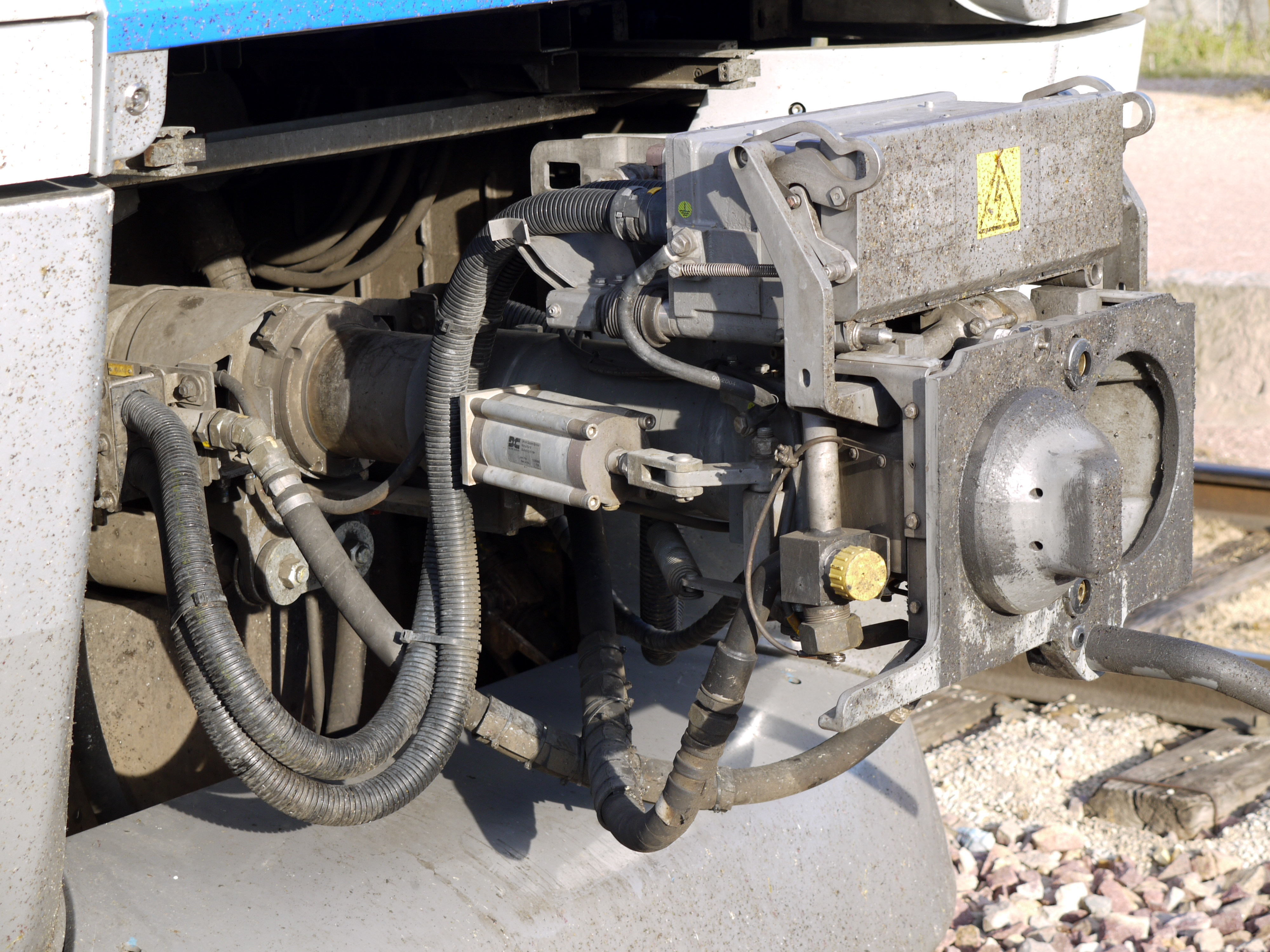 Scharfenberg coupler of a Hybrid multi-system electro-diesel multiple units class B825000 of the SNCF (France)